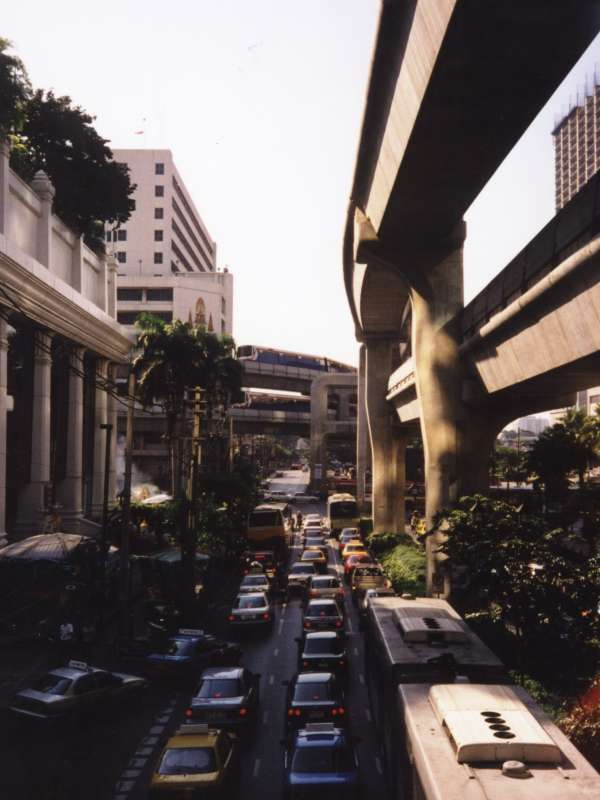 Traffic jam in Bangkok. Skytrain tracks above the crowded Ploen Chit road (the extension of the Sukhumvit road), near the crossing with Ratchadamri Road, the site of the Erawan Shrine - the smoke of that shrine can be seen in the left of the photo. One skytrain is visible in the center of the picture.